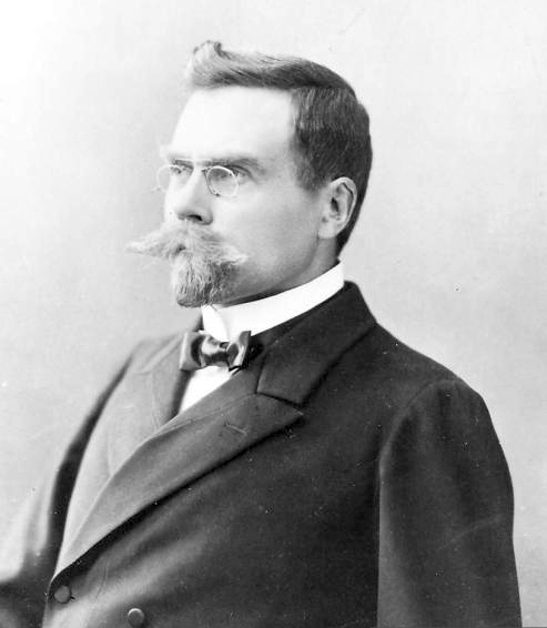 Photograph of the Finnish mathematician Hjalmar Tallqvist (1870–1958).